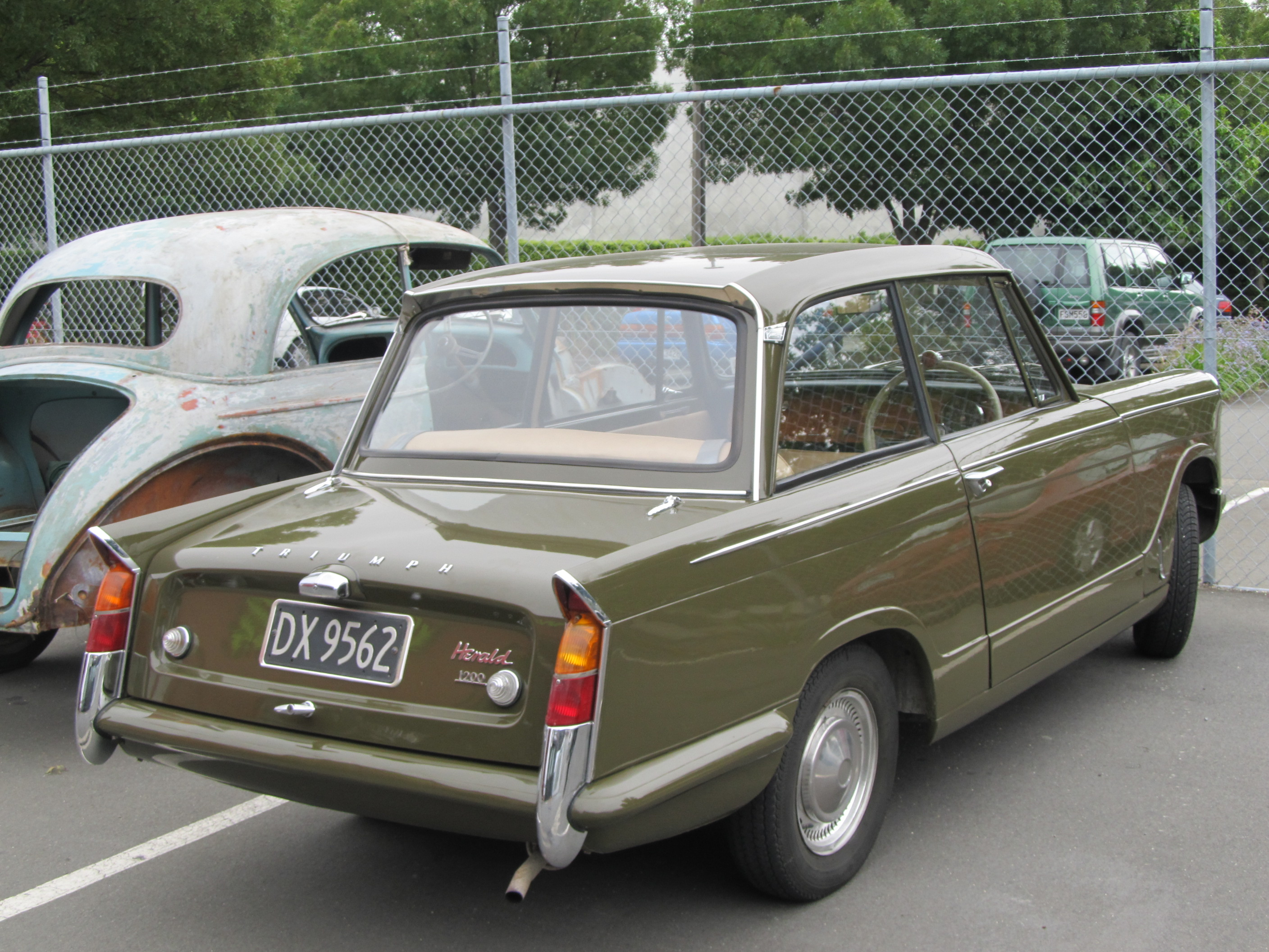 DX9562 Absolutely pristine... And yes, that is a Morris Minor shell next to it! I think this is the cleanest Herald I have ever seen, and it was parked outside a garage of some sort, so clearly being kept properly. Amazing how less than 50 years ago, a 1200cc family saloon was normal!